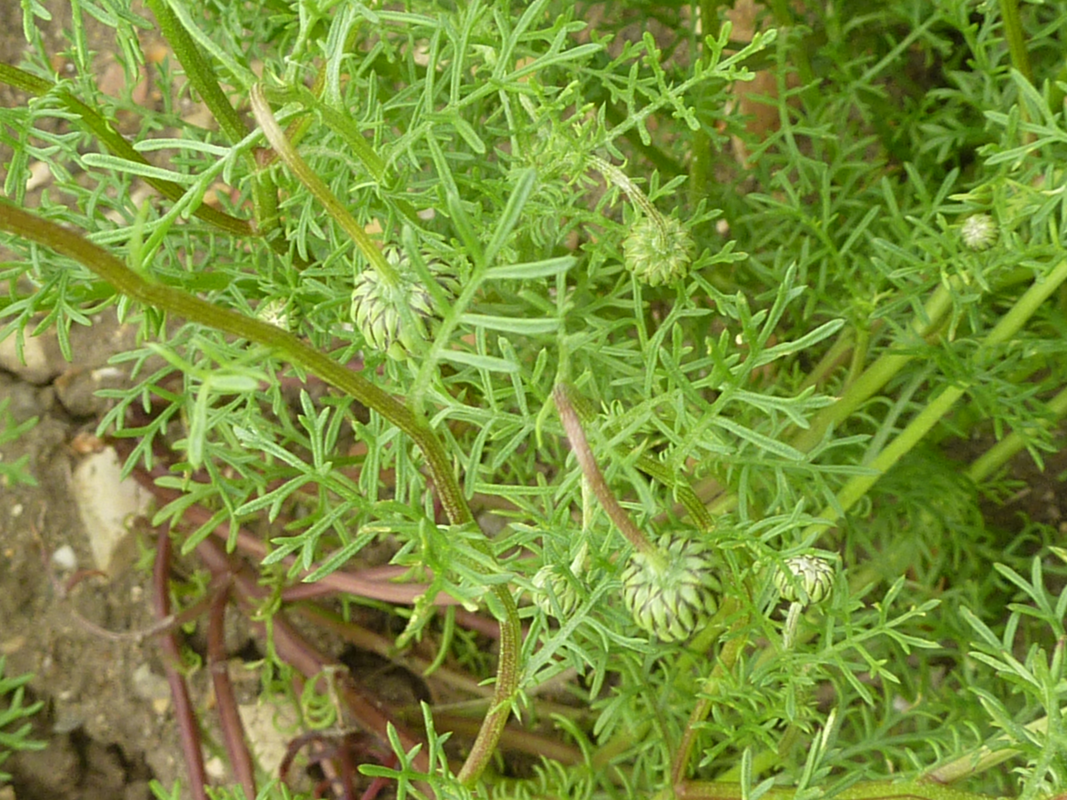 Taken in the Cambridge University Botanic Garden